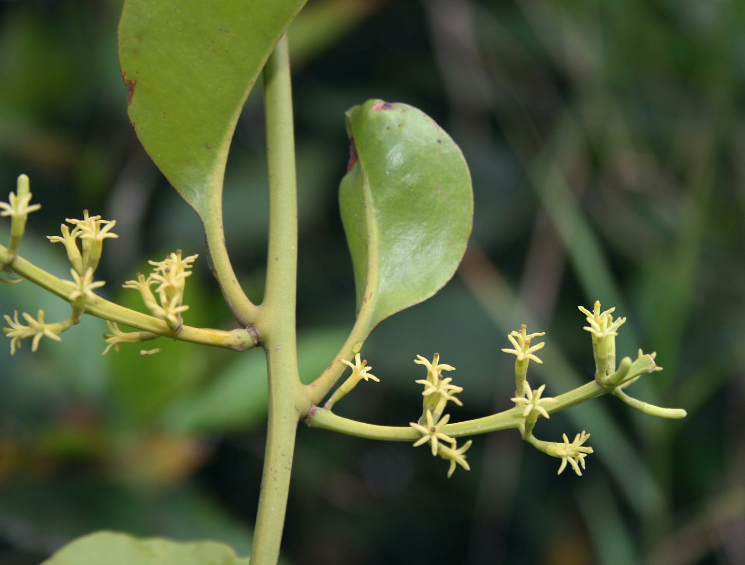 Struthanthus orbicularis, Riemenblumengewächse (Loranthaceae) - Costa Rica: Prov. Cartago, Orosi